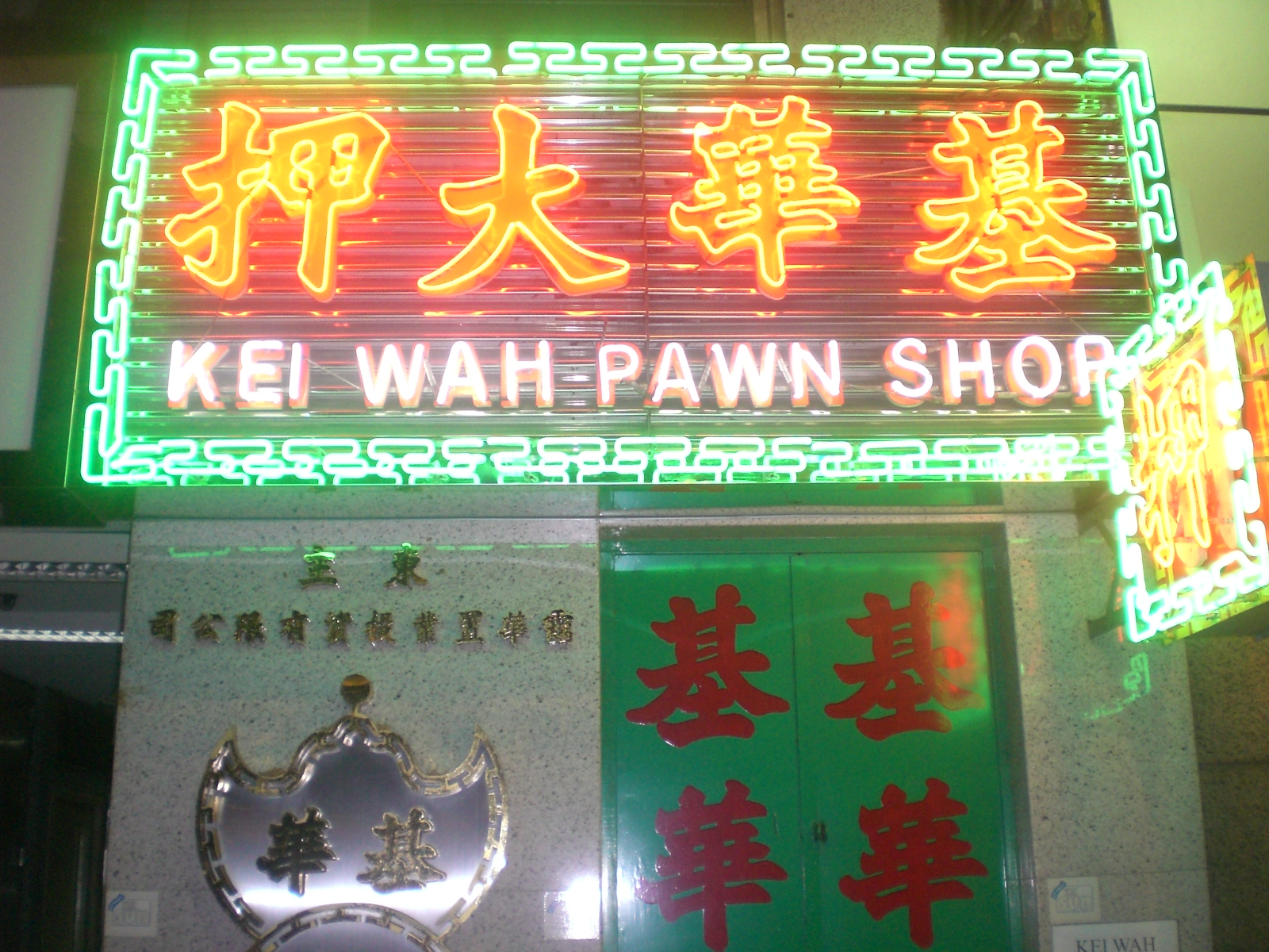 Shops in Central District, Hong Kong. Author= Saiyans16